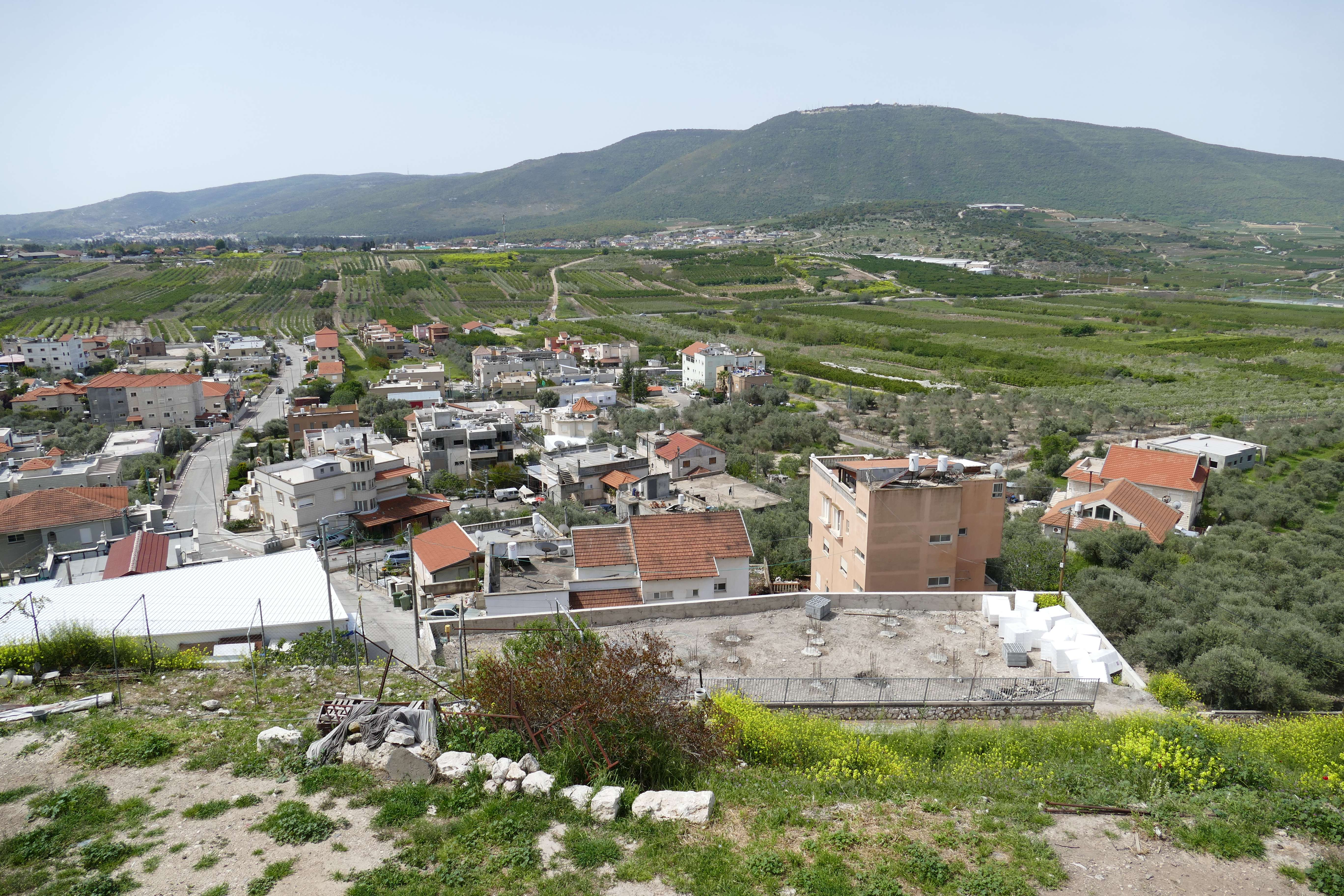 Jish (Gush Halav), Israel.